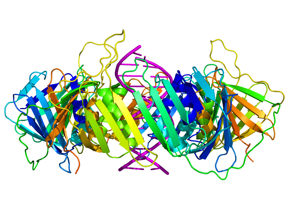 Complex between human PCNA (PDB: 1W60; rainbow colored) and double stranded B DNA (magenta)